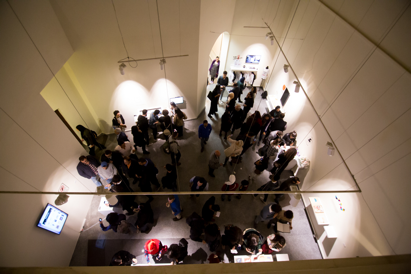 AUC's Fall 2018, Graduating Graphic Design Students displaying their work in the exhibition "Zoom in Keda!" Sharjah Art Gallery, AUC, 2018, photo by Mostafa Abdel-Aty